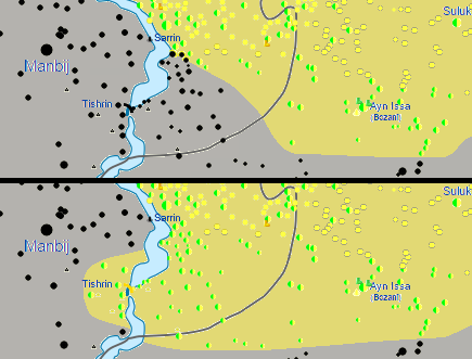 Map of the territorial changes during the 2015 Tishrin Dam offensive, from December 23 to December 30.